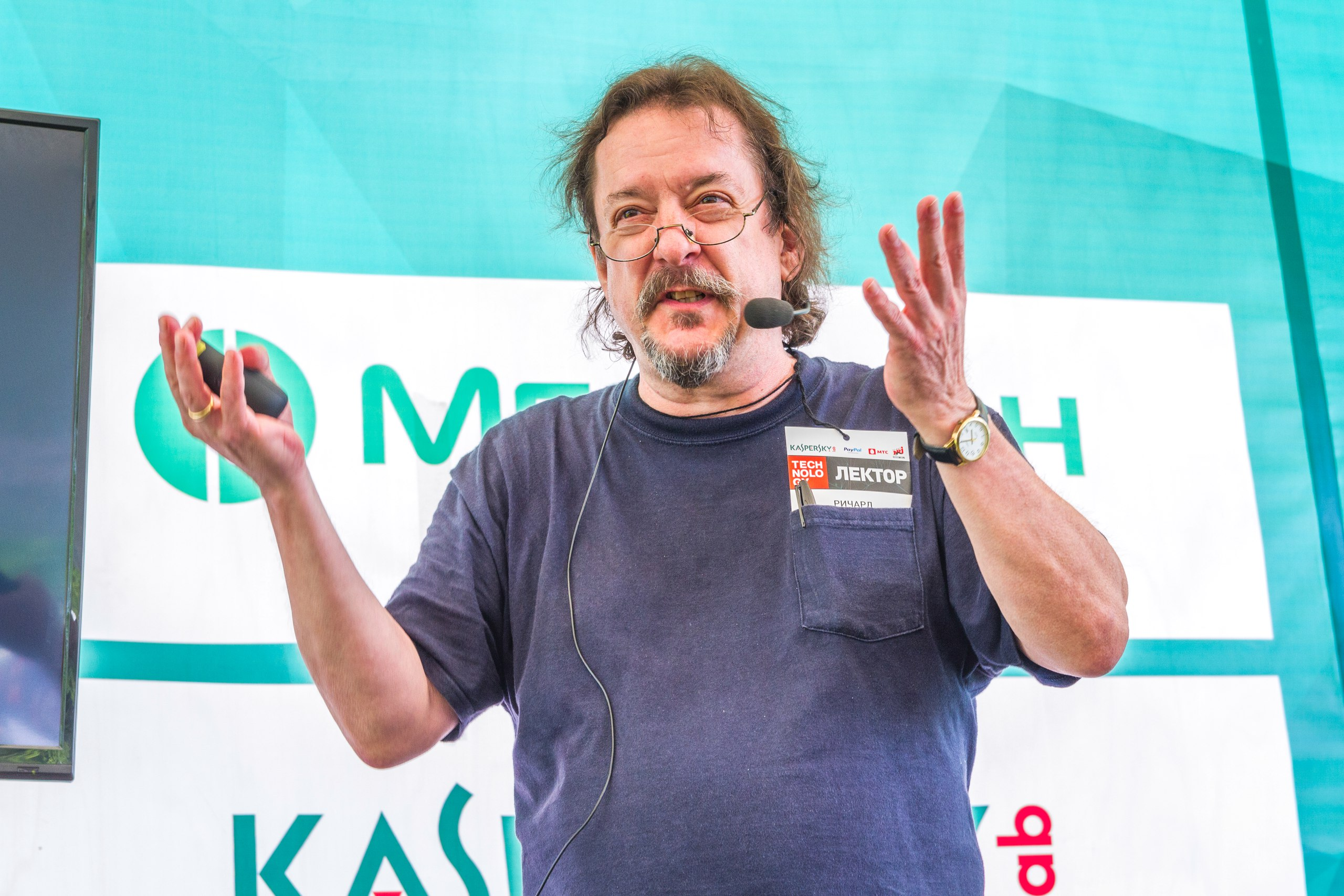 Richard "Levelord" Gray in St. Petersburg, Russia, at GeekPicnic, June 2017